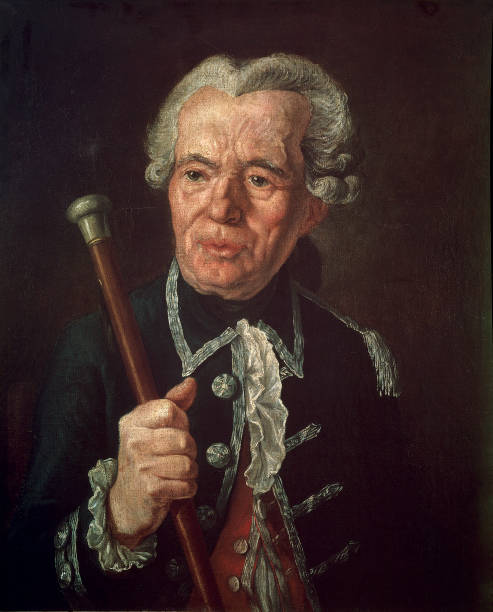 Bernard René Jourdan, marquis de Launay, 1740–1789. French governor of the Bastille and commander of its garrison when it was stormed on the 14 July 1789, during the French Revolution. From a contemporary print.